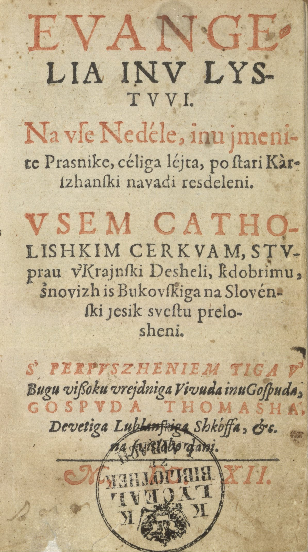 Front page of the Evangelia inu lystuvi.